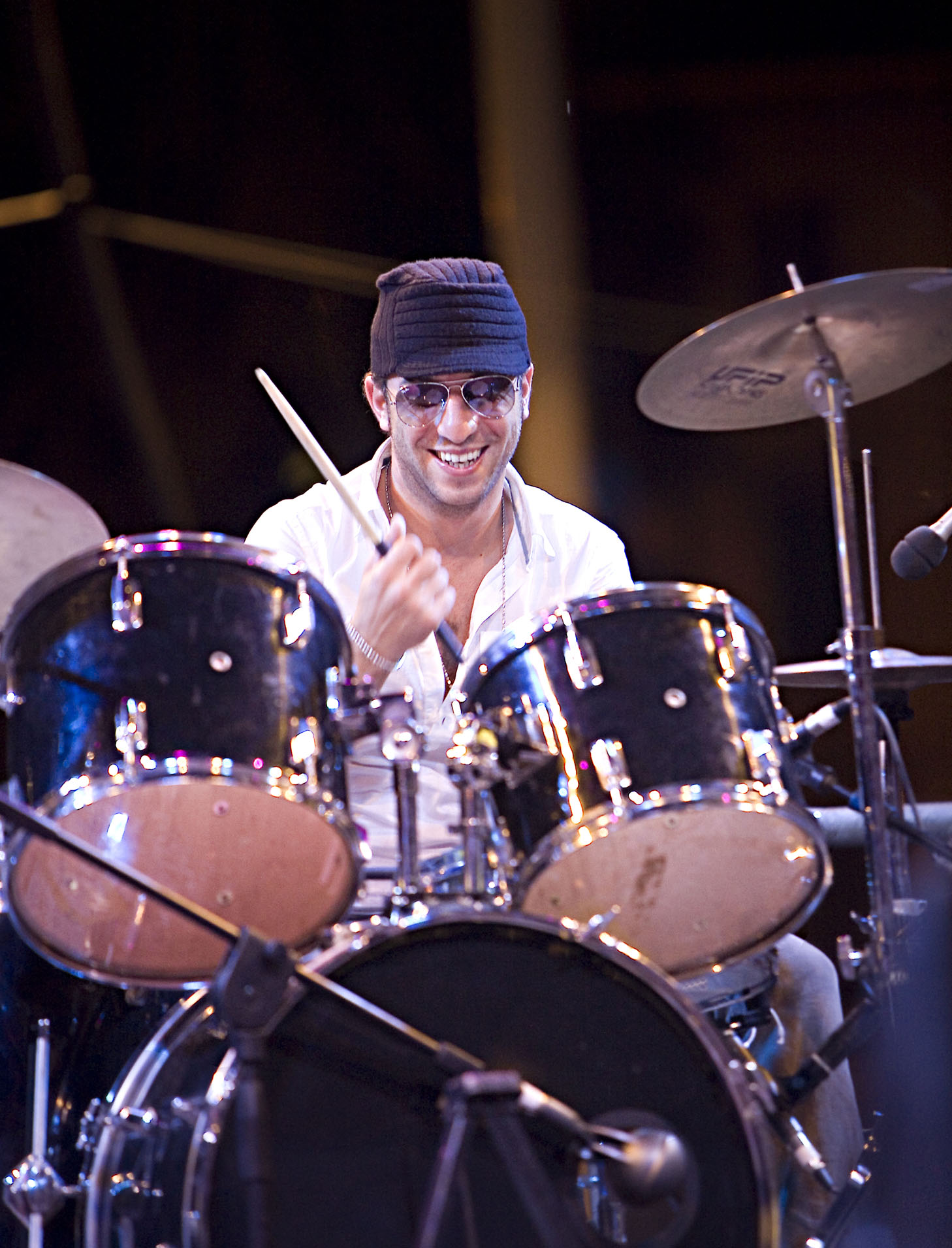 SUGARFREE LIVE TOUR 2009